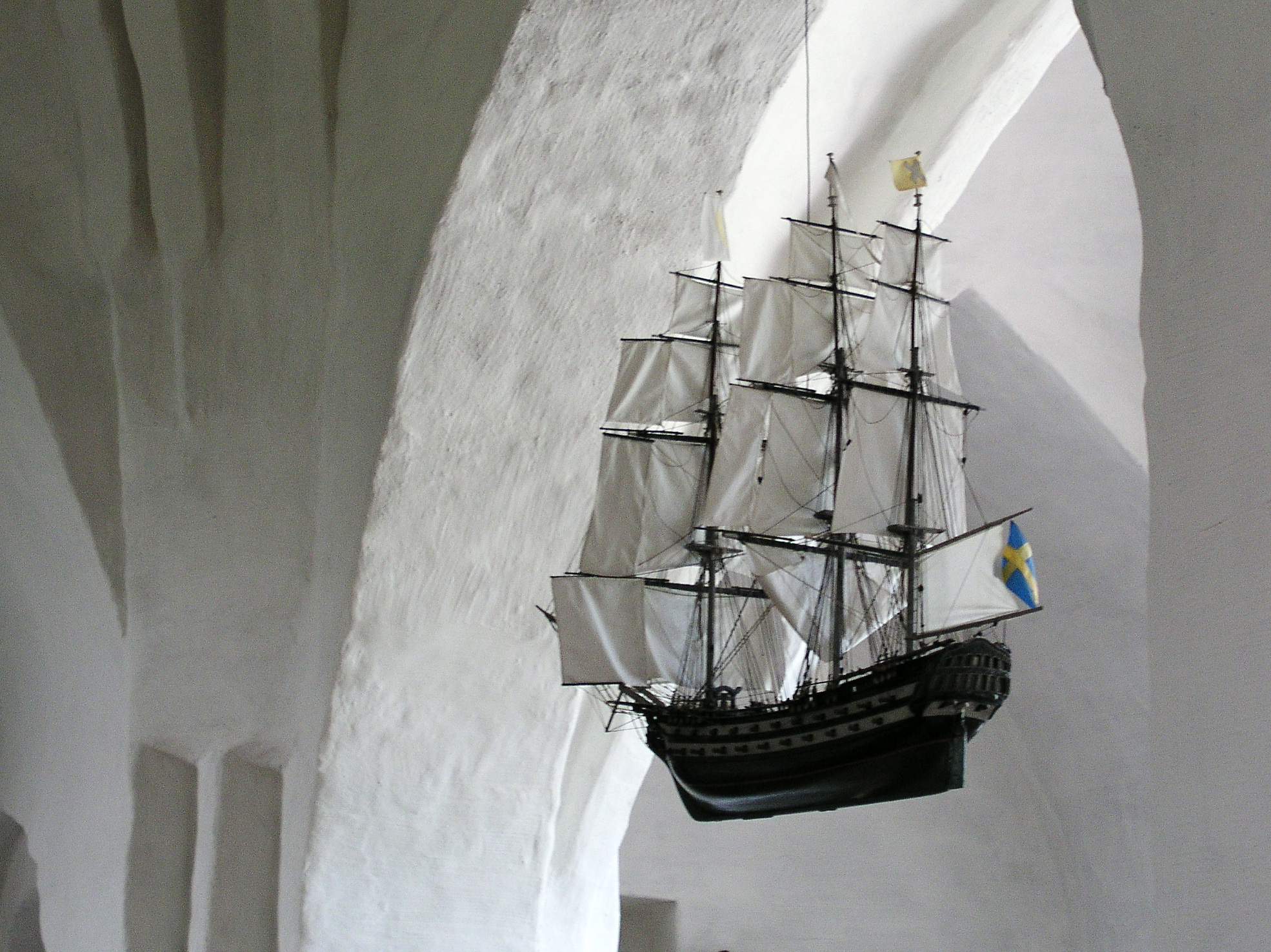 Drothems kyrka, Söderköping. Votive ship. The picture was taken the 30 of June 2003 by Håkan Svensson (Xauxa).